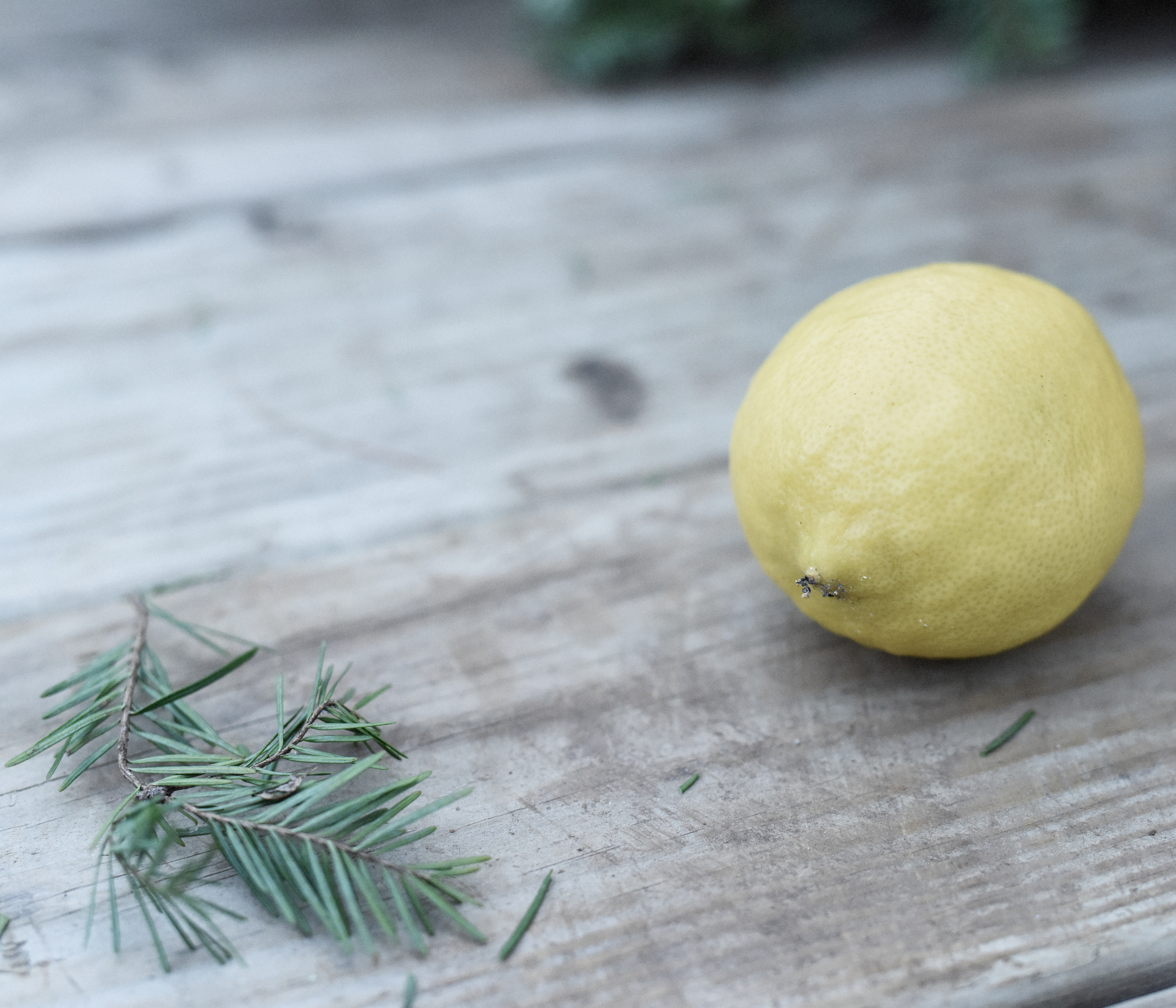 Lemon at a botanical garden.